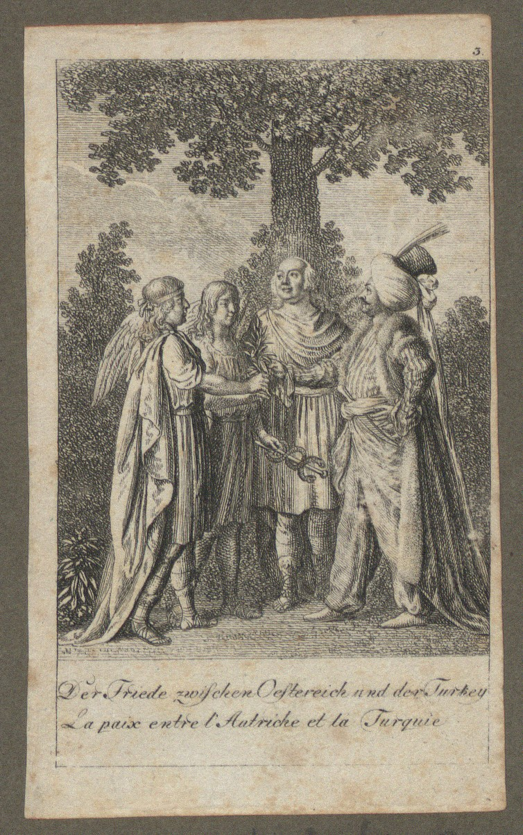 1792 illustration of the Treaty of Sistova